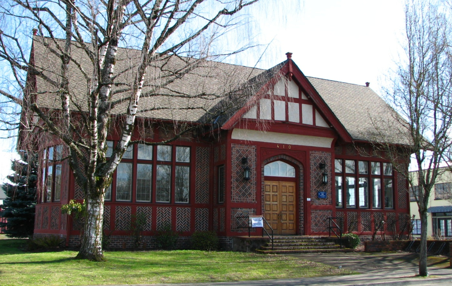 The Gresham Carnegie Library at 410 North Main Street, Gresham, Oregon, United States, is listed on the US National Register of Historic Places (NRHP). It is currently in use by the Gresham Historical Society as a local historical museum. NRHP reference number 99001715